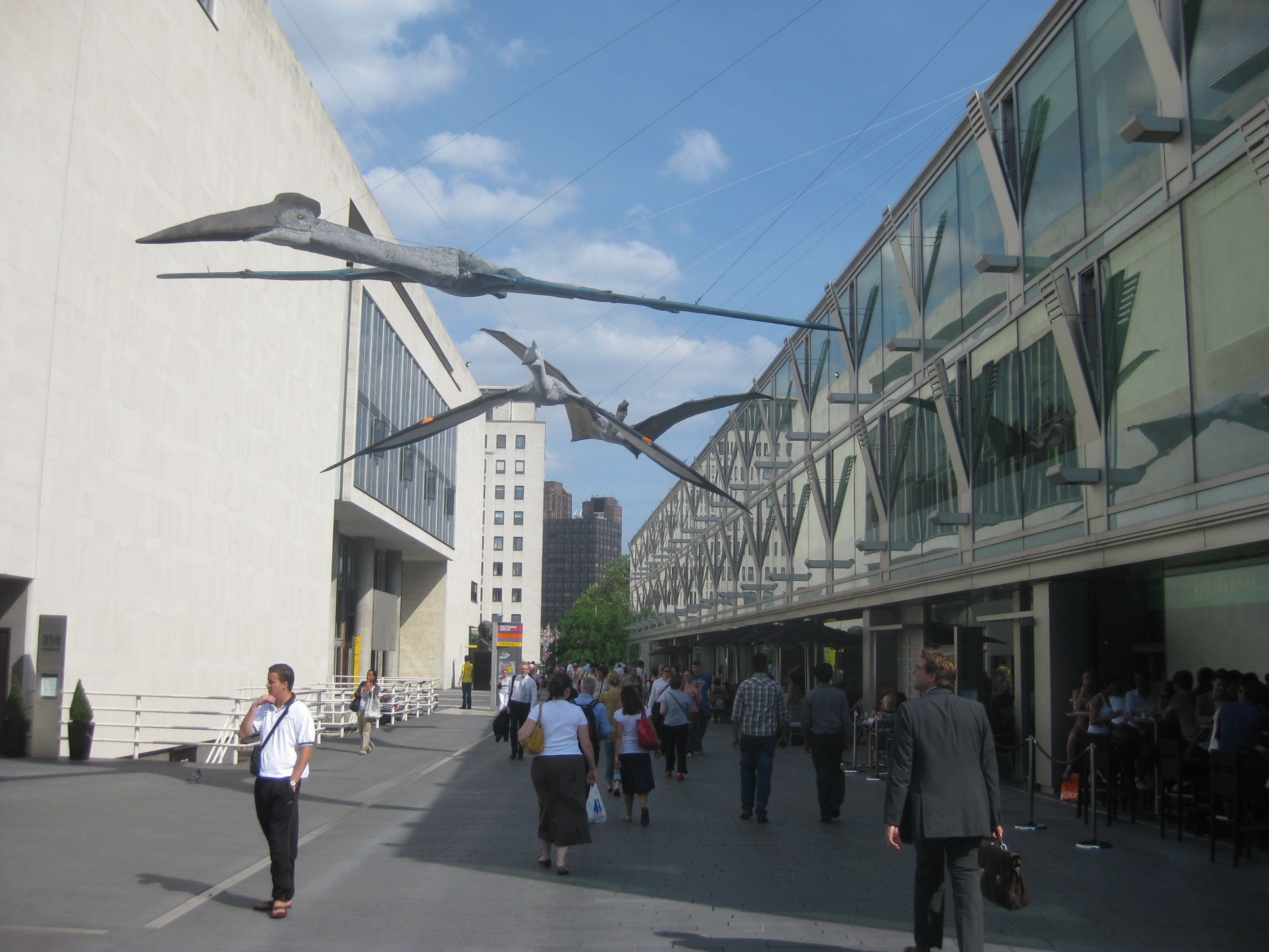 Part of the Royal Society's 350th anniversary.